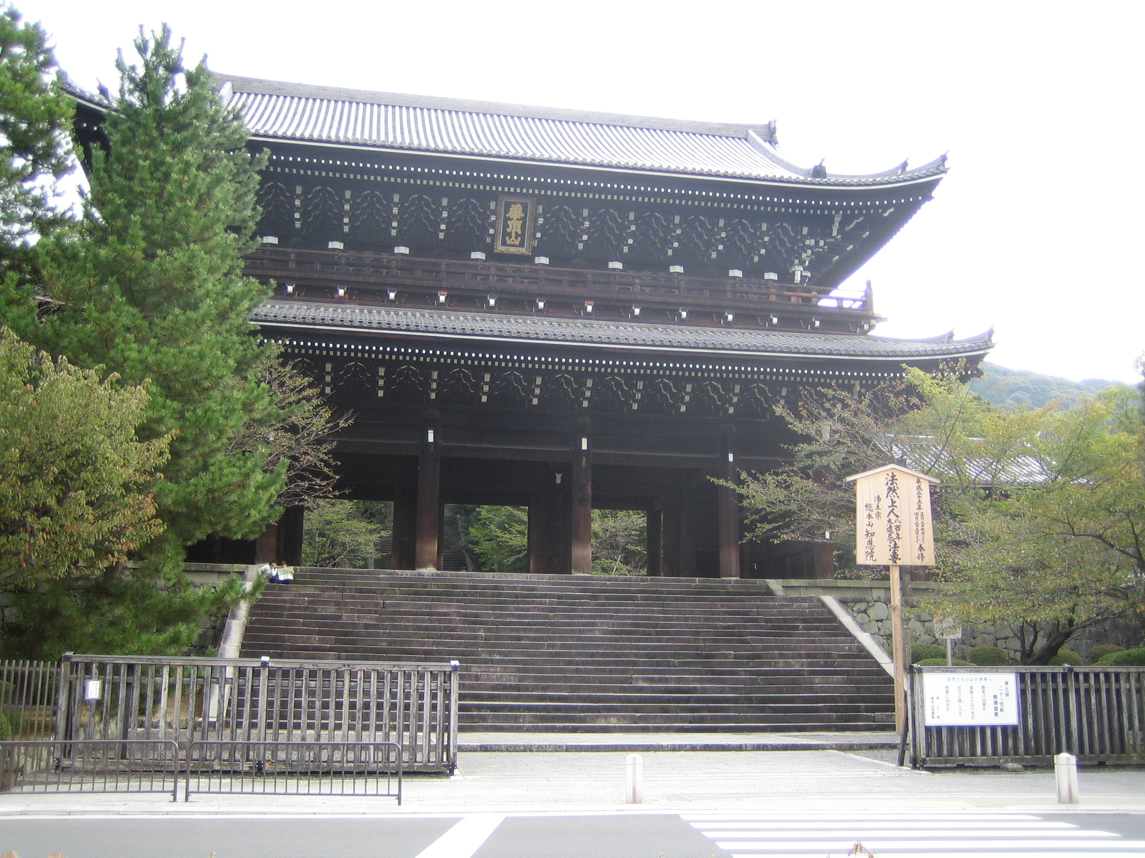 The main gate "Sanmon" (三門) of the Chion-in (知恩院), at HigashiyamaKyoto, Kyoto, Japan